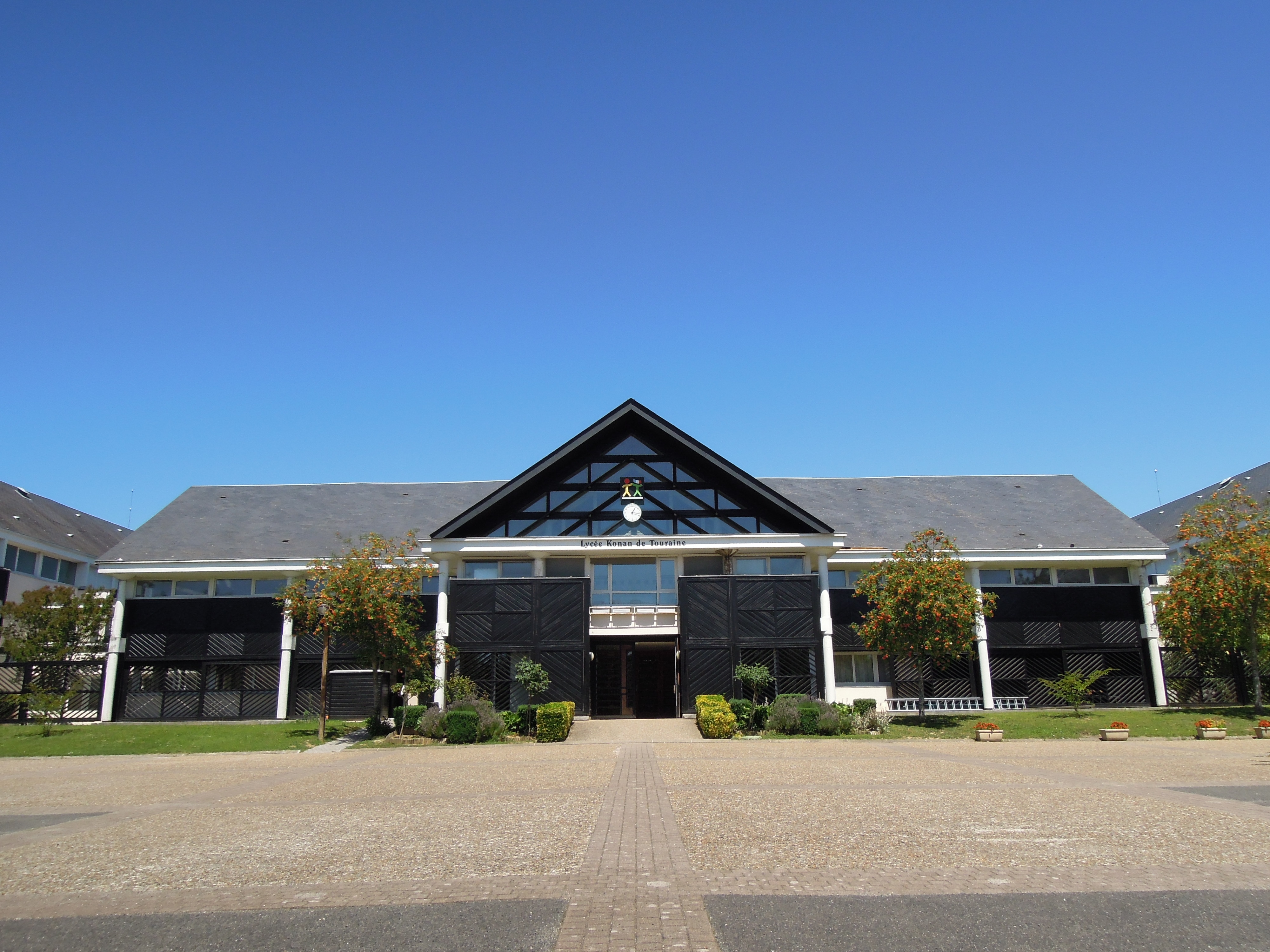 Lycée Konan central building